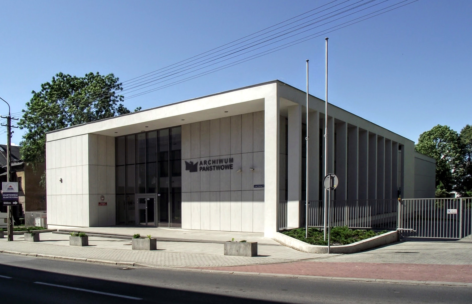 State Archive in Bielsko-Biała.